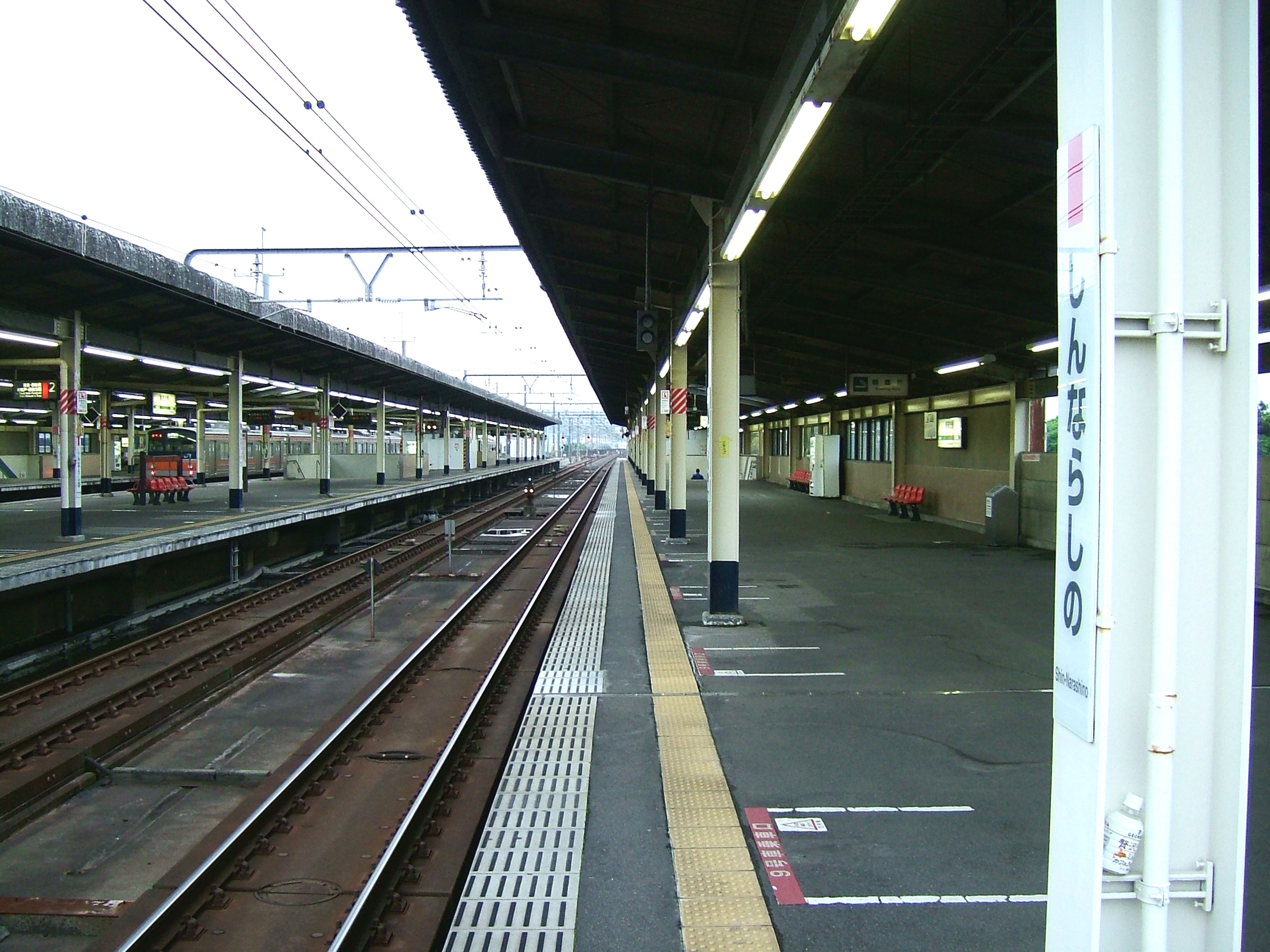 Shin-Narashino Station platform (East Japan Railway Keiyō Line)